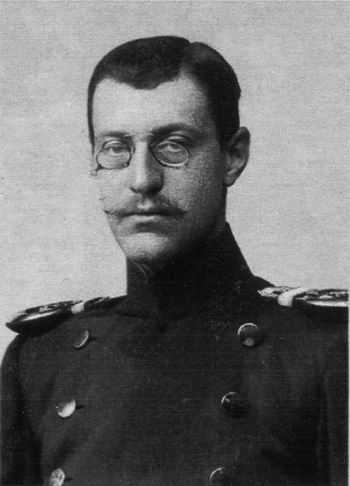 King Mindaugas II of Lithuania, 2nd Duke of Urach (1864-1928)